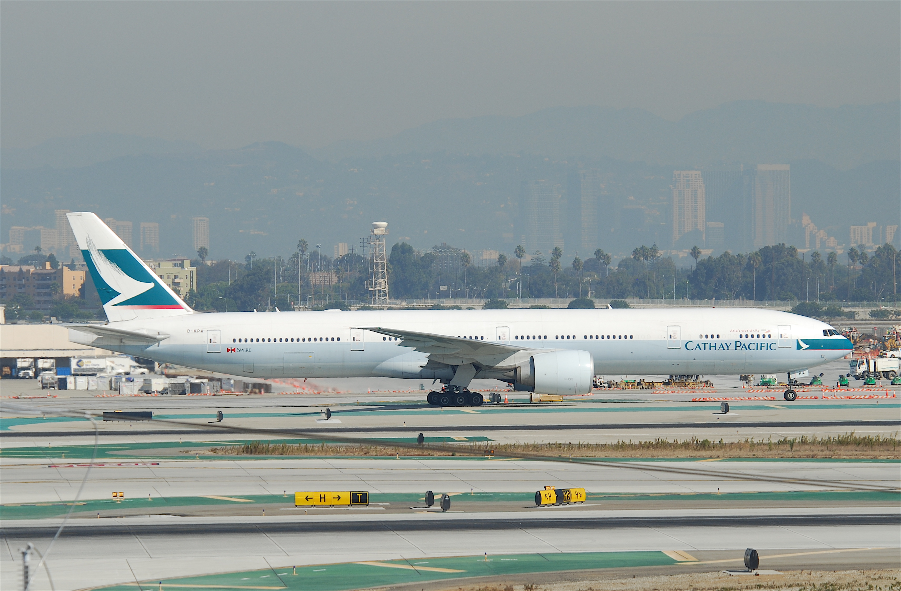 Cathay Pacific Boeing 777-300ER; B-KPA@LAX;10.10.2011/622gr